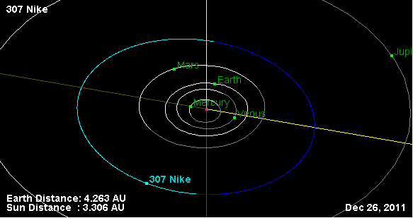 Orbit diagram of (307) Nike